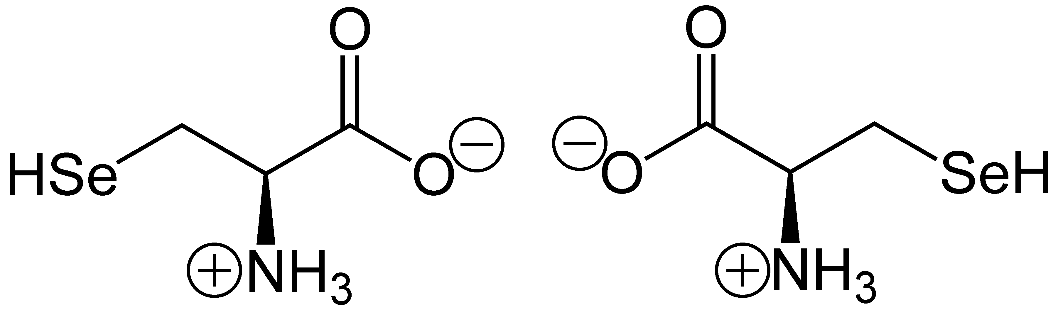 Structural formulae selenocystein (betaine)